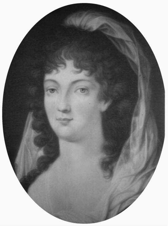 Portrait of Caroline de la Motte Fouqué (1774 - 1831)